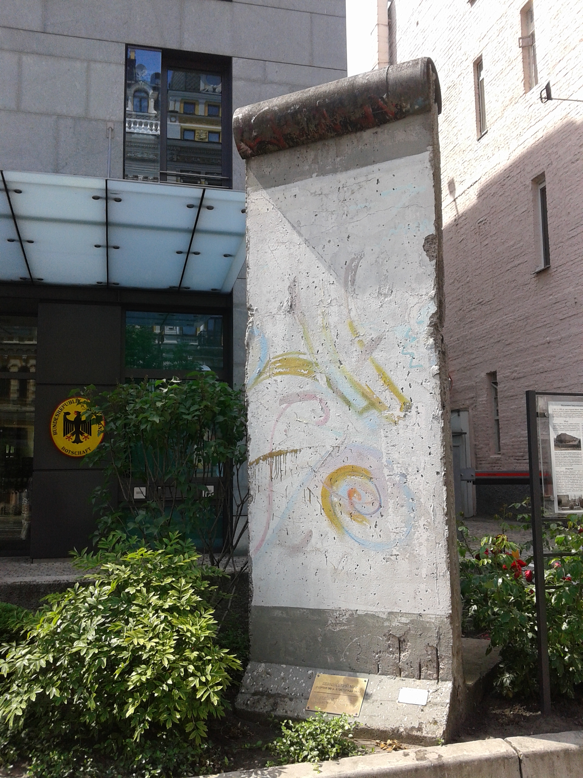 The piece of the Berlin Wall, located at the Potsdamer Platz, in Kyiv (Ukraine)